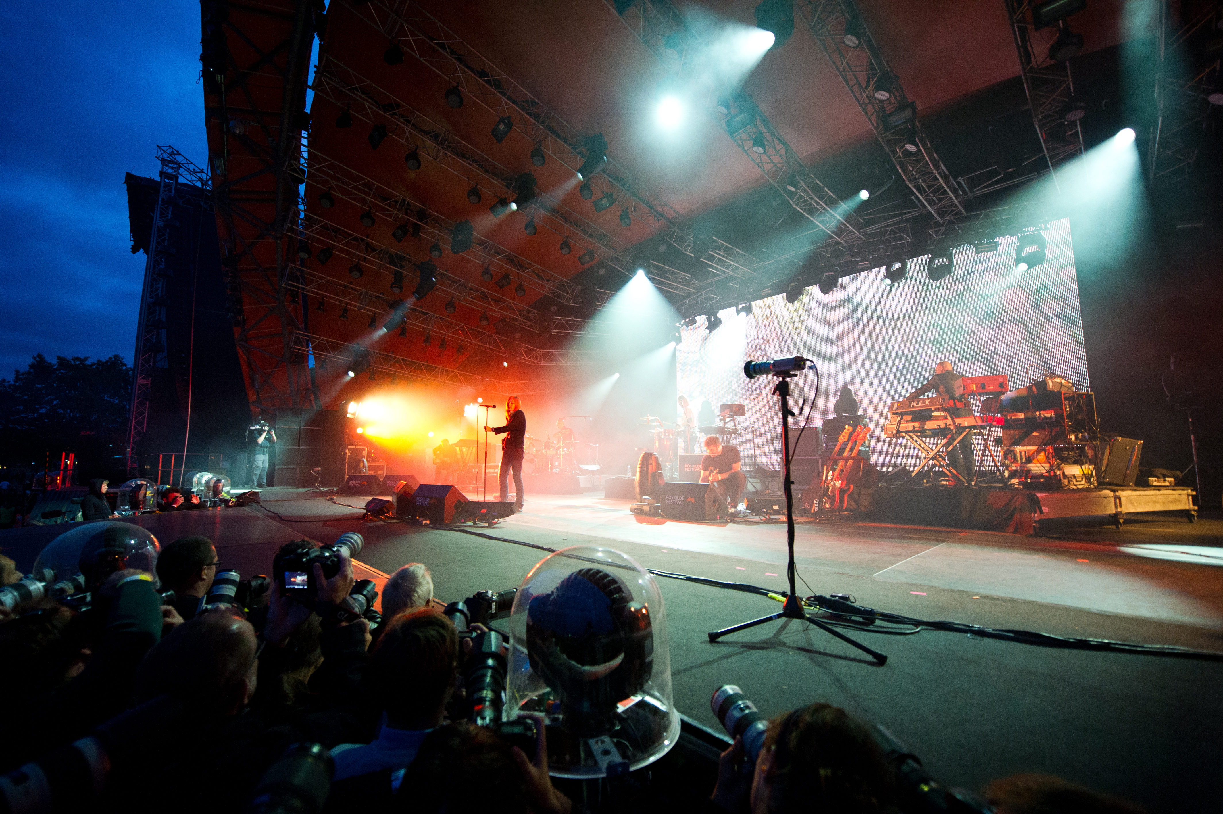 Portishead performing at Roskilde Festival 2011 on Orange Stage.